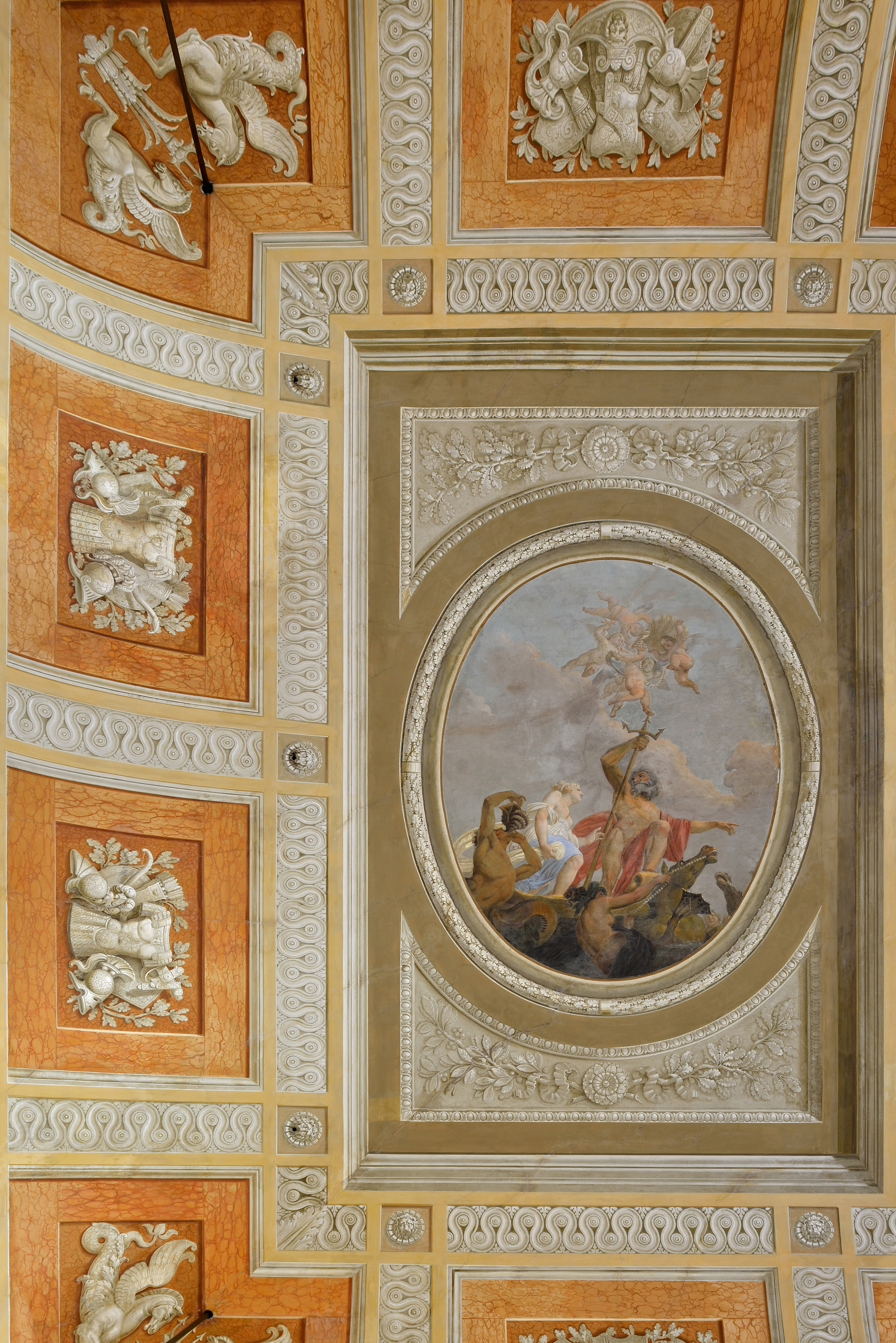 Detail of the Napoleonic wing of the Procuratie in Venice. Fresco with Neptun and Salacia, fresco by Sebastiano Santi